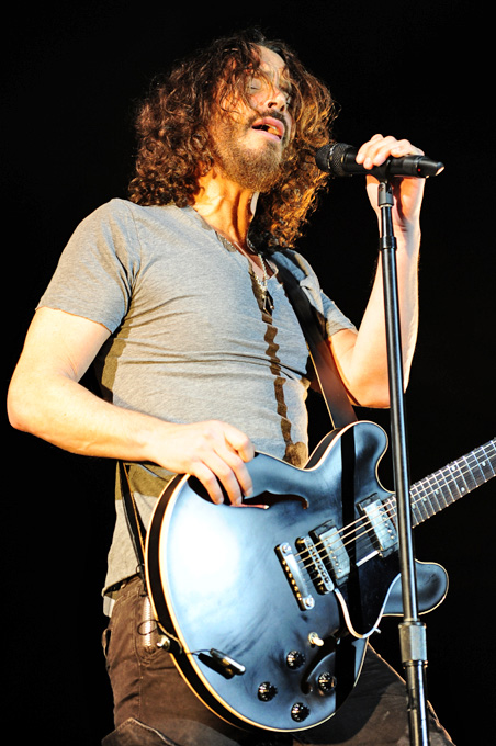 Big Day Out Festival 2012. Do Not Publish.